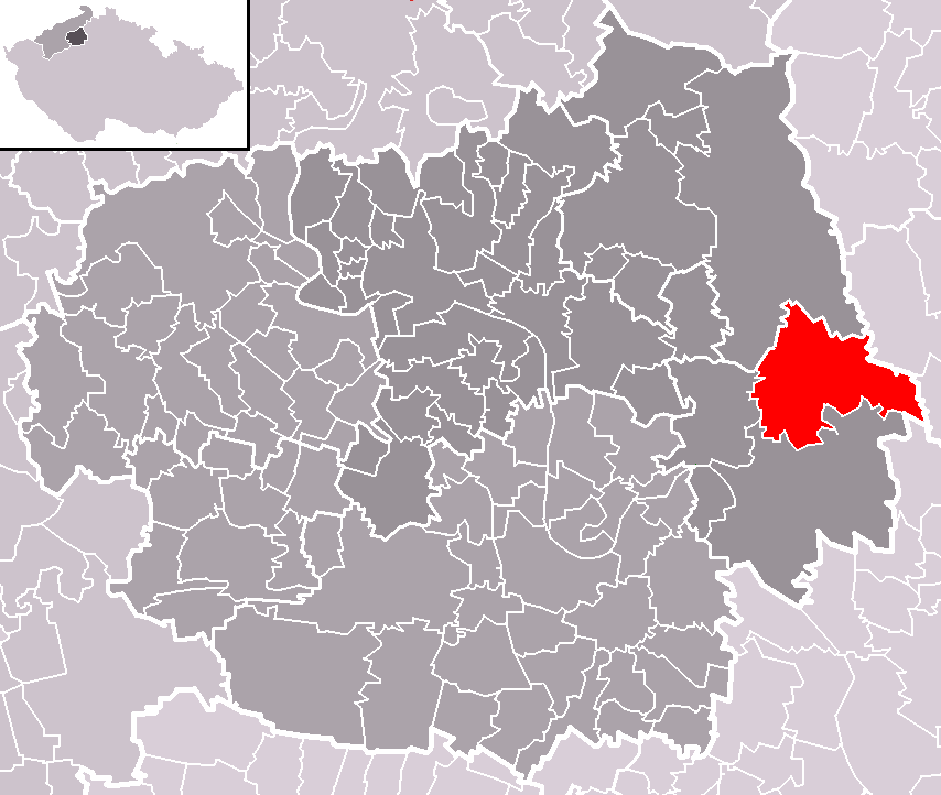 Location of Snědovice municipality within Litoměřice District and administrative area of Litoměřice as a Municipality with Extended Competence.